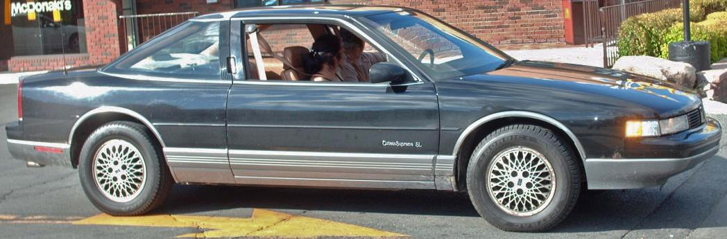 1988-1991 Oldsmobile Cutlass Supreme photographed in Montreal, Quebec, Canada.